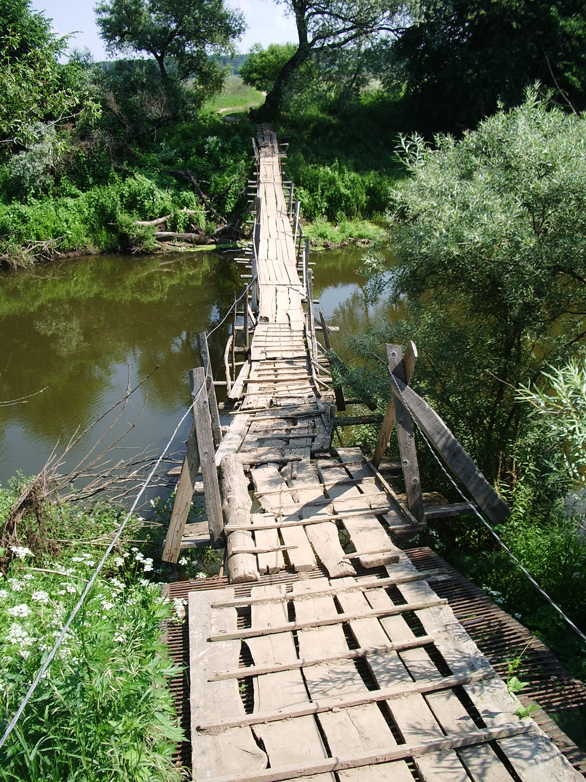 The bridge through the river Protva